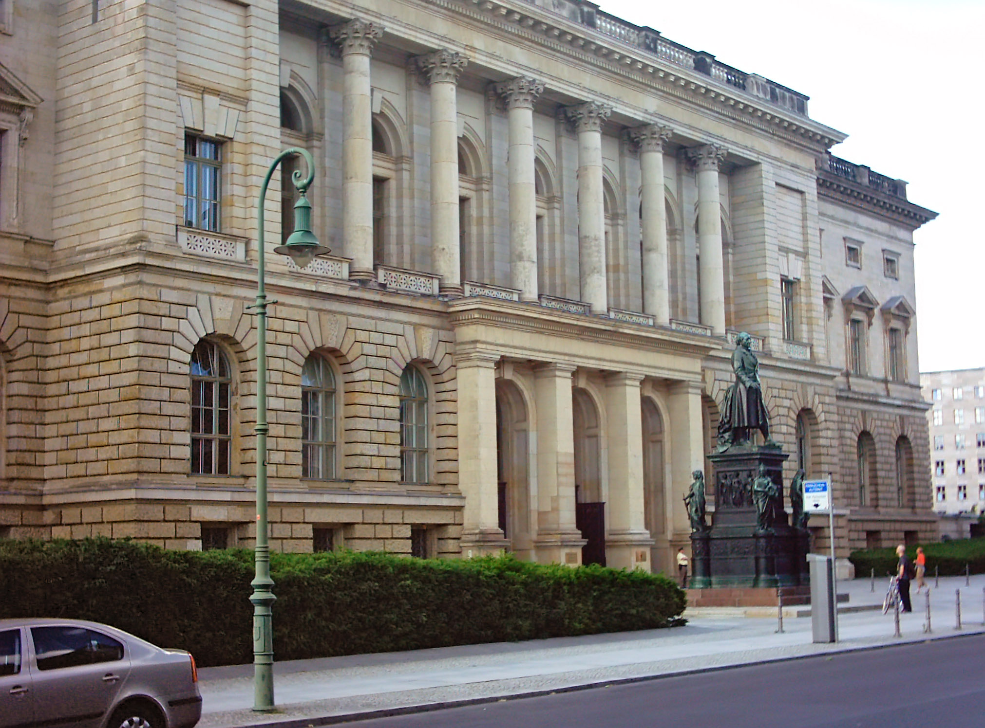 The Berlin House of Representatives, former Prussian parliament.